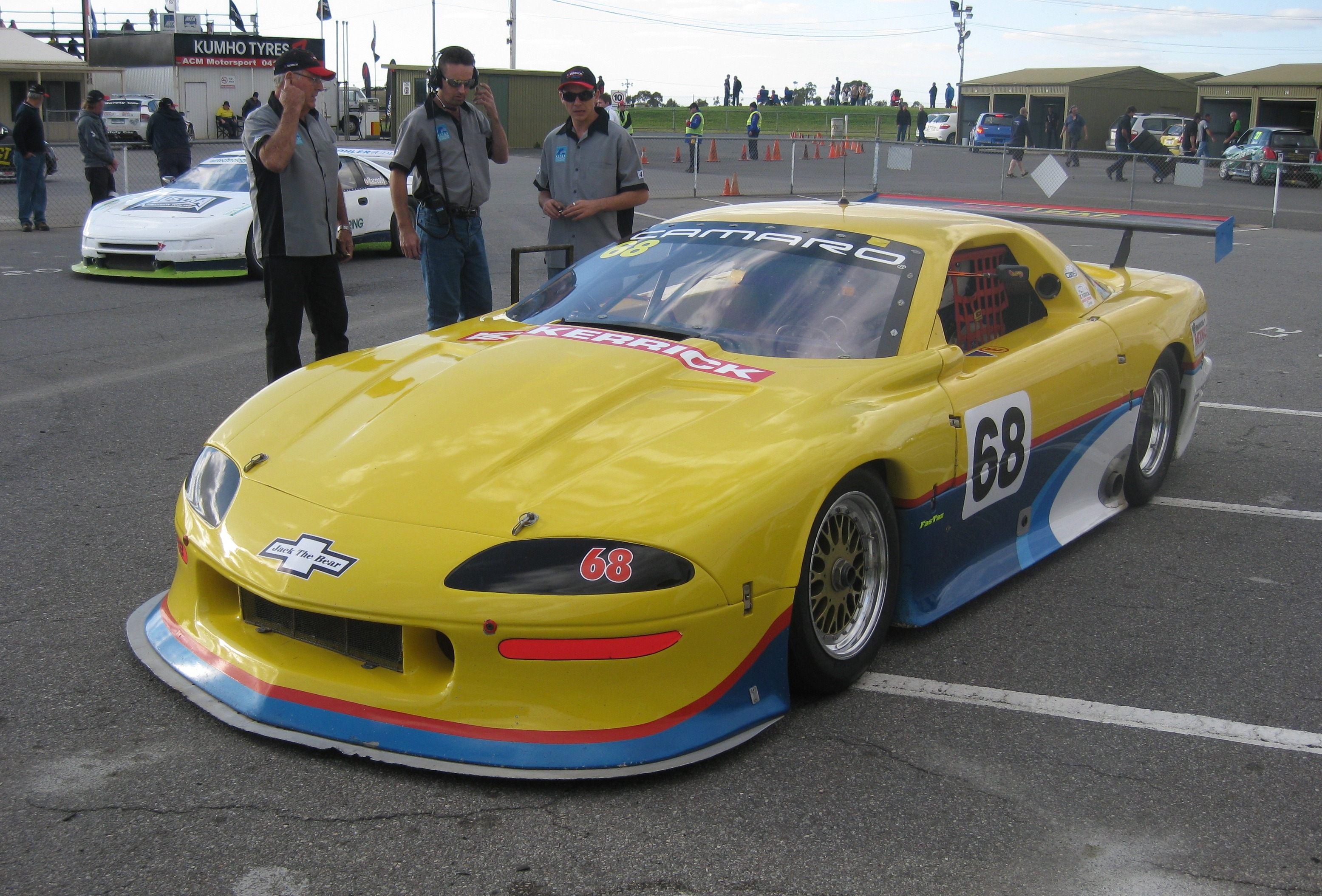 The Chevrolet Camaro of Shane Bradford at Mallala Motor Sport Park for the opening round of the 2011 Kerrick Sports Sedan Series